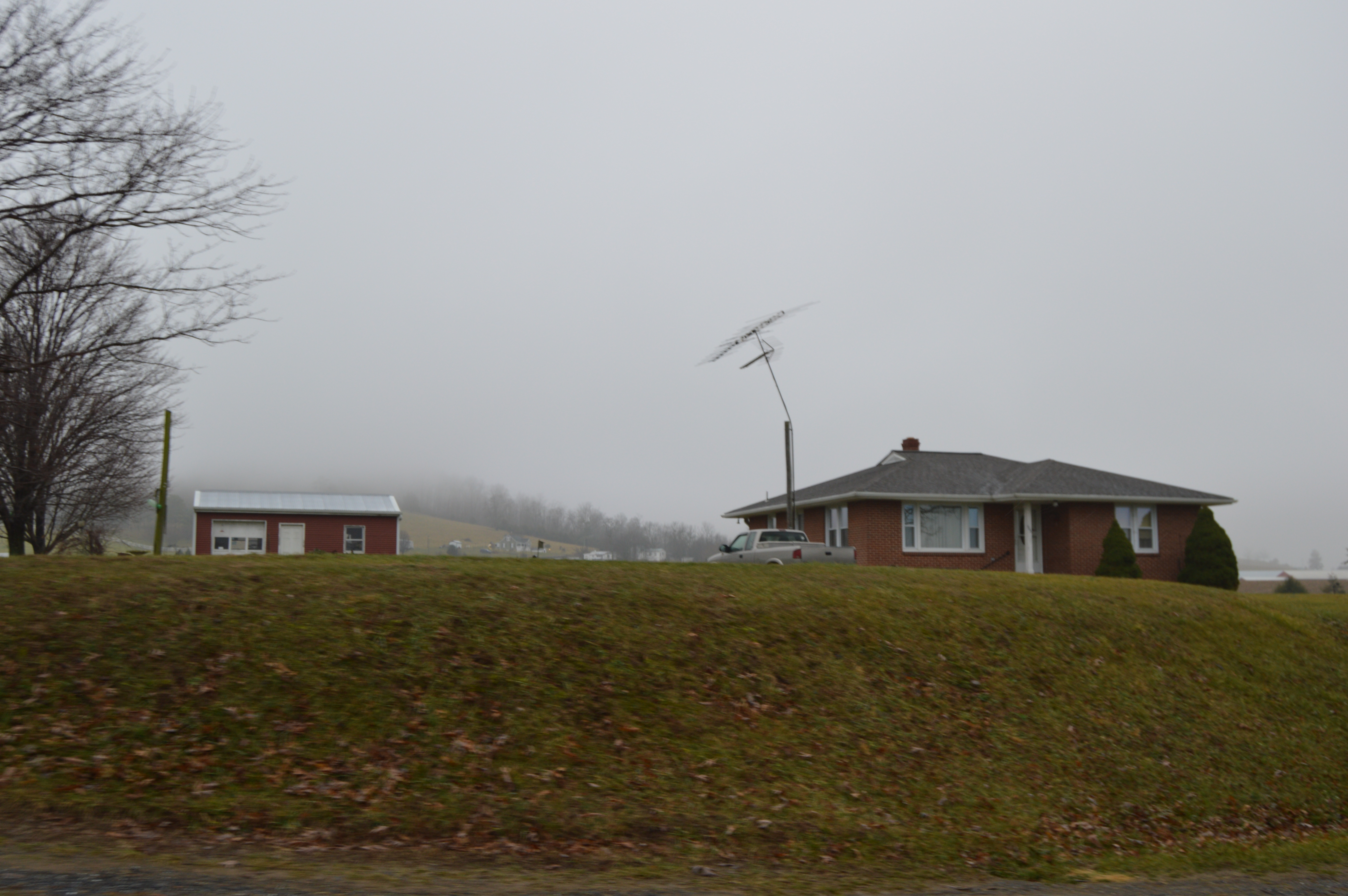 Overview of the site of the Mt. Zion Schoolhouse, located immediately west of Mount Zion Church on Free Mason Run Road in Augusta County, Virginia, United States. Although destroyed, the school remains listed on the National Register of Historic Places.